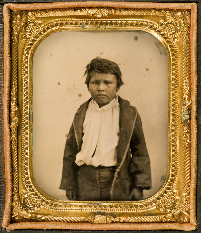 Title: [Pease Ross, Comanche captured and reared by Sul Ross] Creator: Bridgers, William Date: ca. 1860 Part Of: Lawrence T. Jones III Texas photography collection Description: This young Comanche boy was captured at the battle at the Pease River by Texas Ranger and soldier Sul Ross (1838-1896) during the raid when Cynthia Ann Parker was taken from the tribe. The Ross family raised the boy. It is possibly the earliest known photographic image of a Comanche. Published in SWHQ, Jan. 1990. Physical Description: 1 photograph: sixth plate tintype, hand colored; 7 x 8.3 cm. Form/Genre: Tintypes; Photographs; Portrait photographs File: #22.tif Rights: Please cite DeGolyer Library, Southern Methodist University when using this file. A high-resolution version of this file may be obtained for a fee. For details see the web page. For other information, . For more information, View Lawrence T. Jones III Texas Photographs at